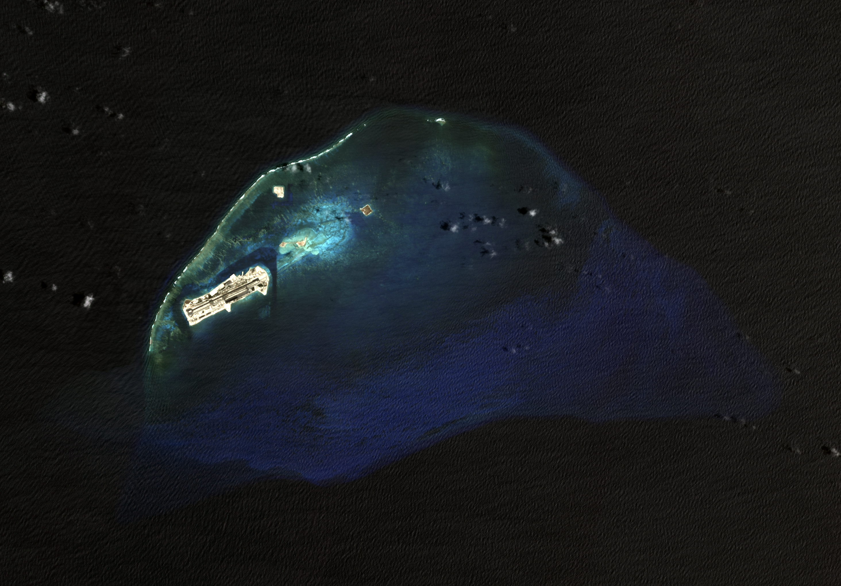 Composite "true color" satellite image of Johnston Atoll, United States Minor Outlying Islands. NASA EO-1 ALI bands used were 5 (red), 4 (green), 3 (blue), and 1 (panspectral). The image was pan-sharpened and resampled to 10m resolution. (correction: this image is 10m resolution.) Imagery courtesy of NASA/USGS.